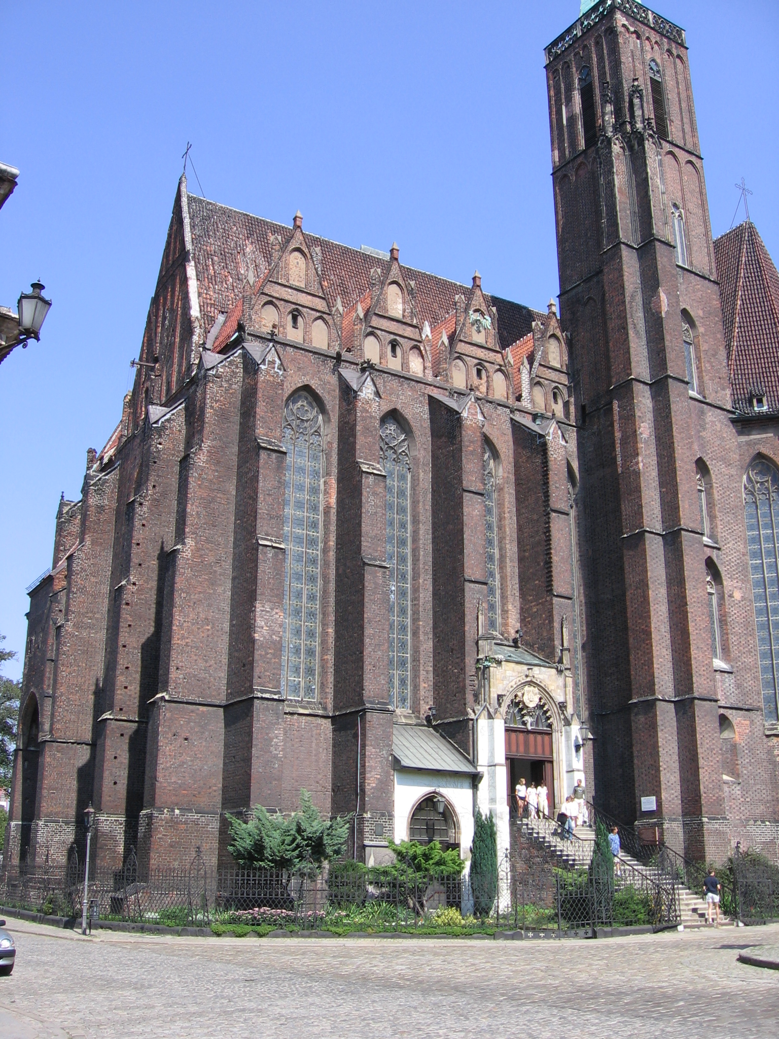 Wroclaw, Poland Saint Cross church & St. Bartholomeo church (two in one building, on two storeys)